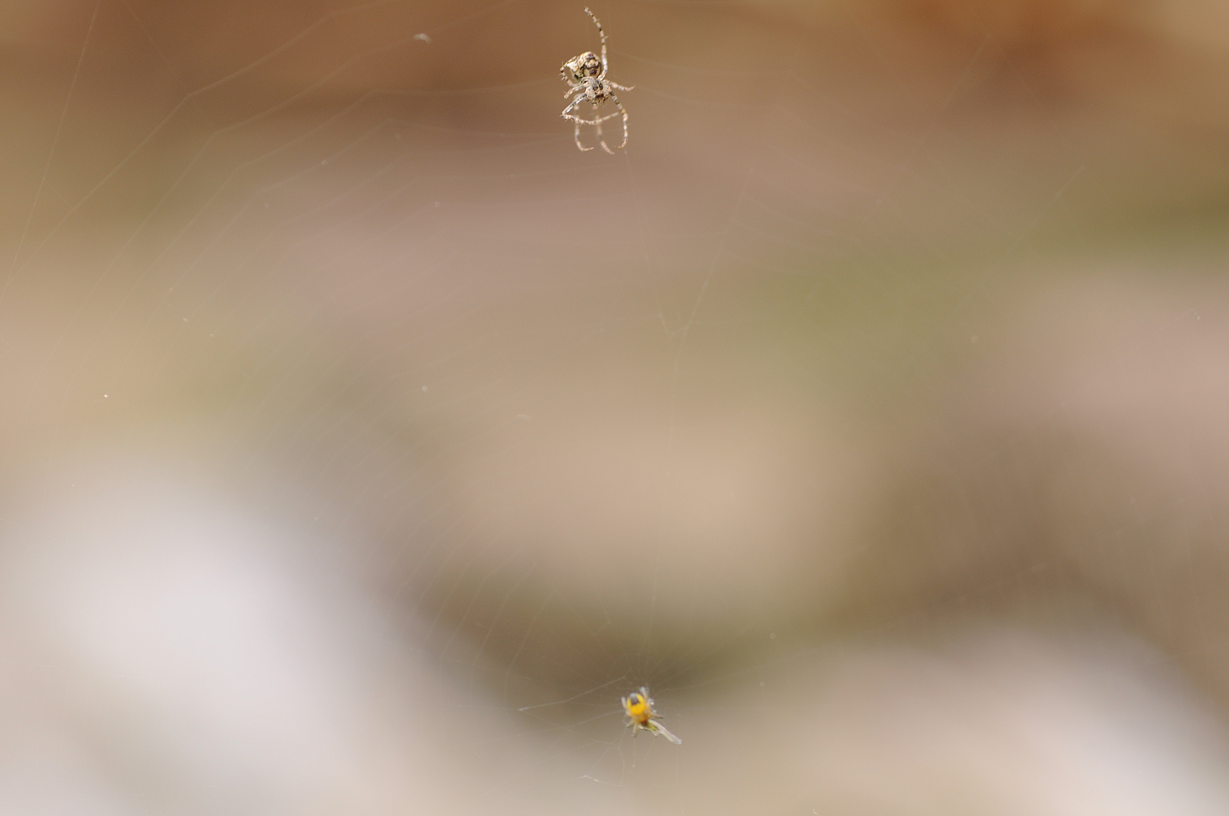 Ero aphana about to attack an Araneus – which has finally been caught and eaten.